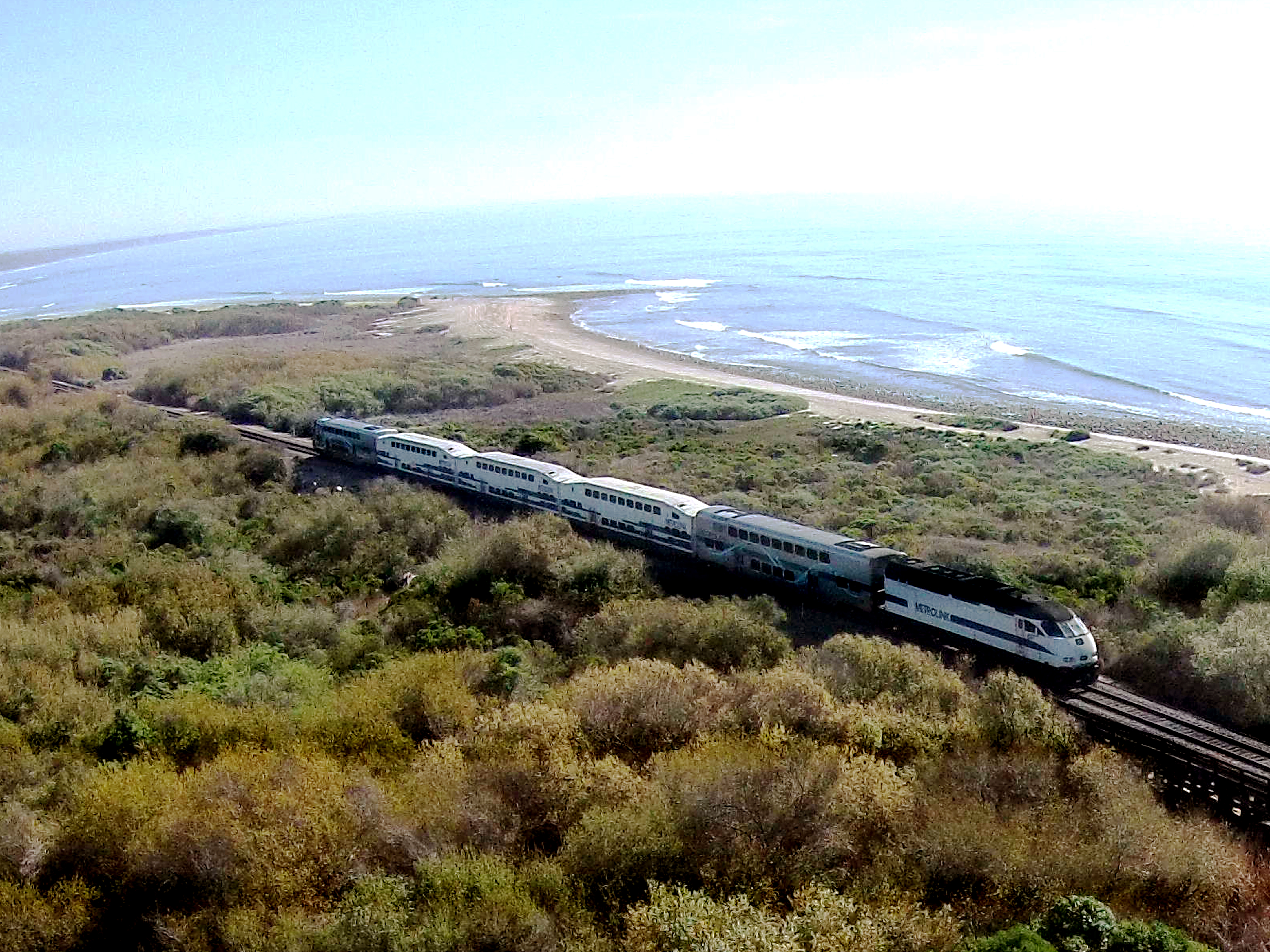 Metrolink Trestles Beach S